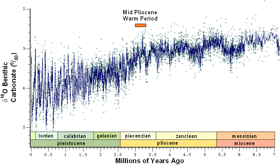 0-7Ma Benthic foraminifera d18O. Data The oxygen isotope data reflect both variation of high-latitude temperature and global ice volume.